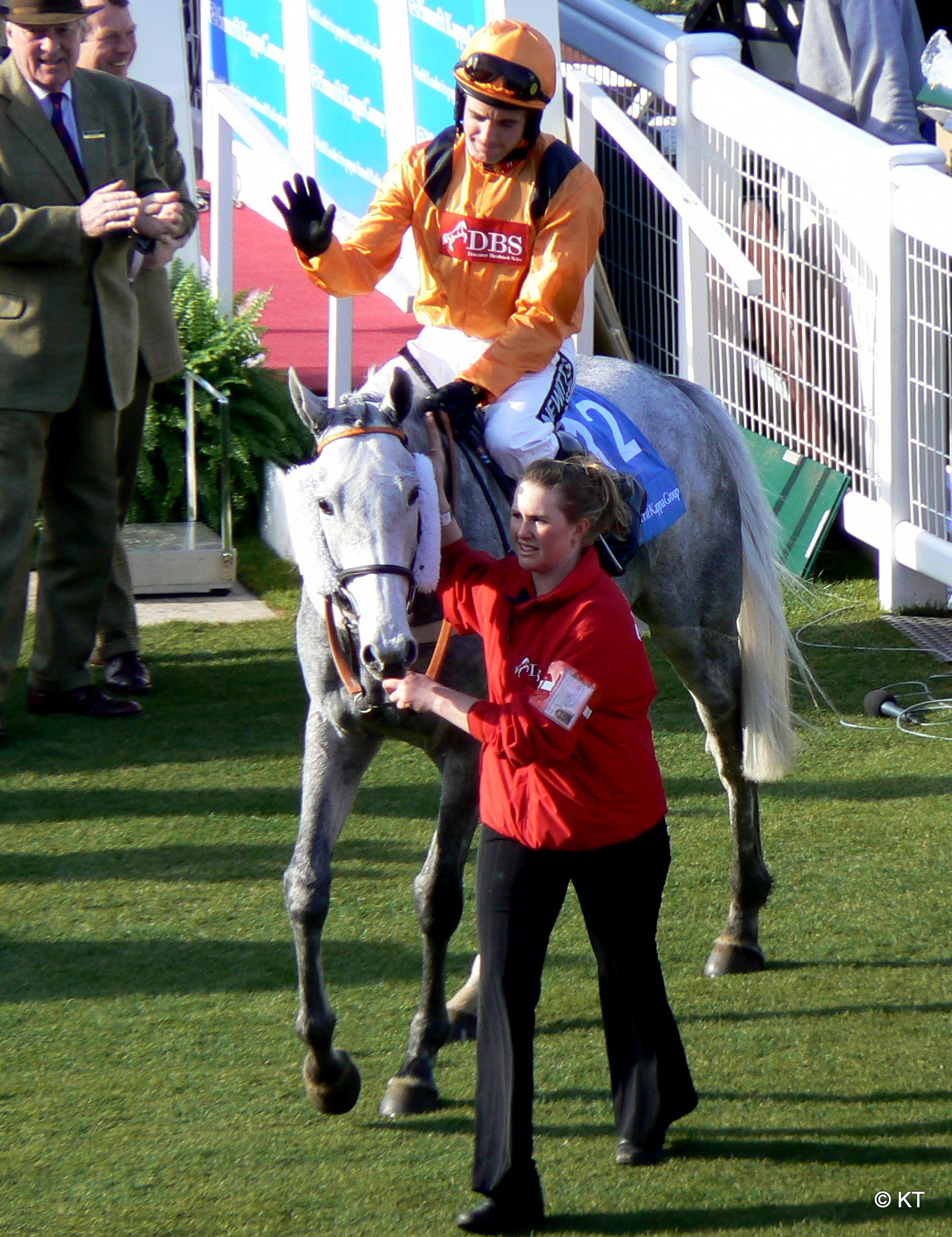 Zaynar, by Daylami, 3rd in the Champion Hurdle, Cheltenham Festival 2010.